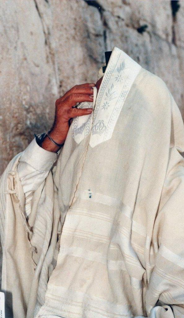 Man at the Western Wall reciting the Shema'